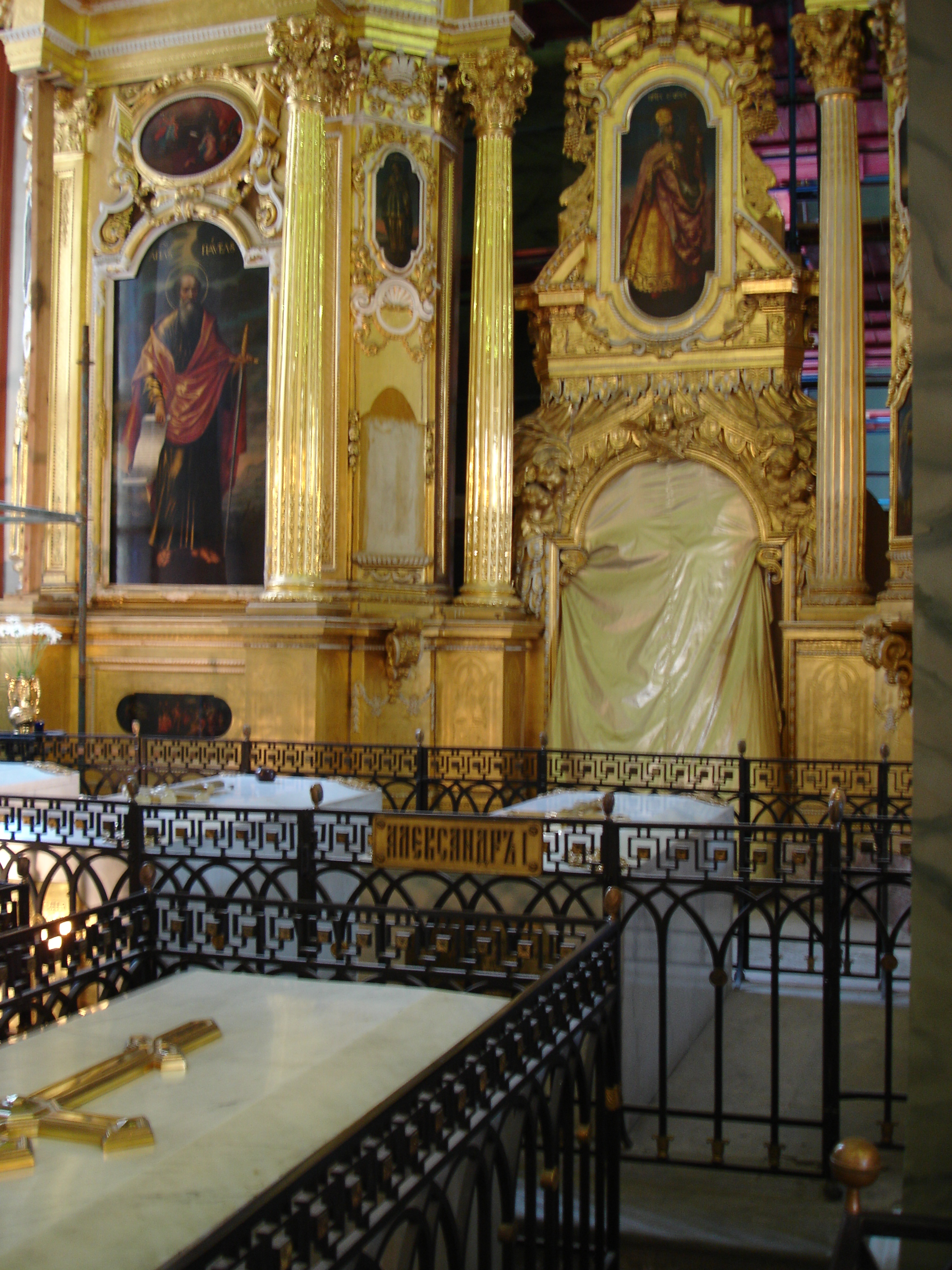 graves inside St Petersburg's Peter and Paul's Cathedral